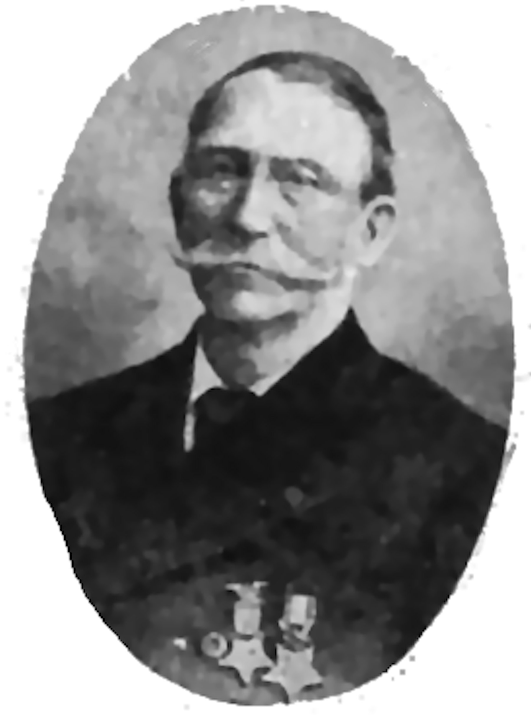 Medal of Honor winner M. R. William Grebe